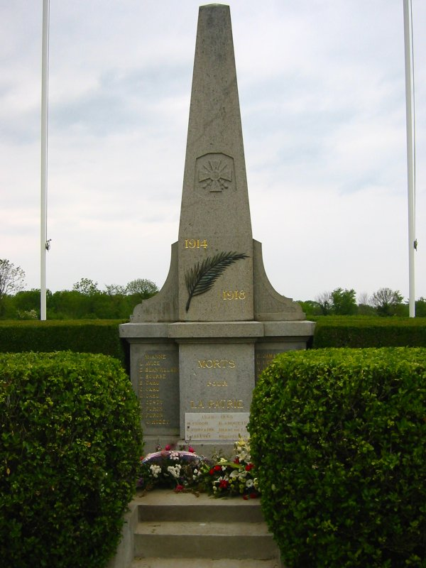 The WWI memorial in Colleville-sur-Mer. I took this photograph in May of 2003 while traveling in France. Mackensen 05:39, 25 Oct 2004 (UTC)